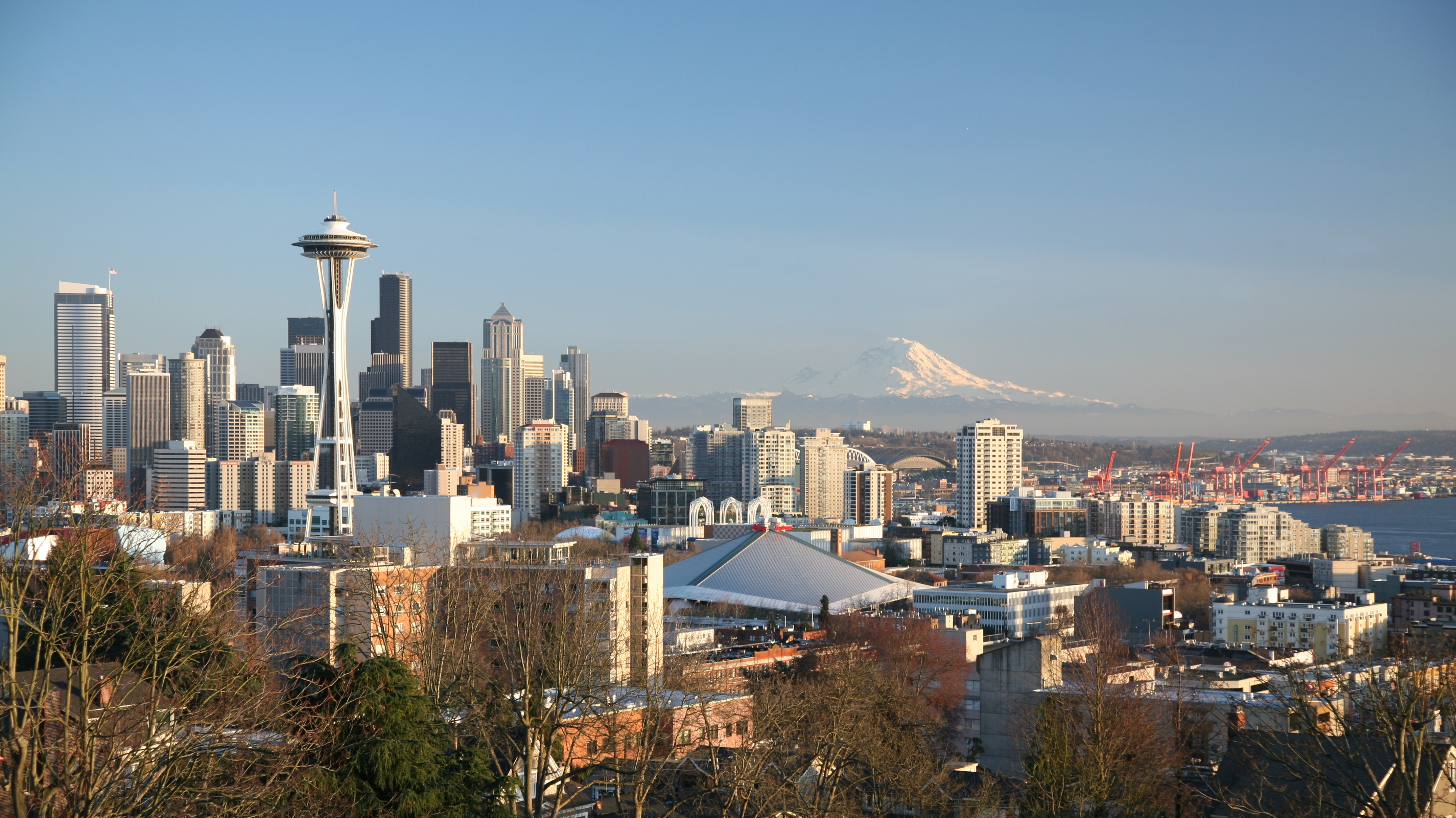 Seattle Skyline view from Queen Anne Hill.